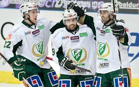 Jubel